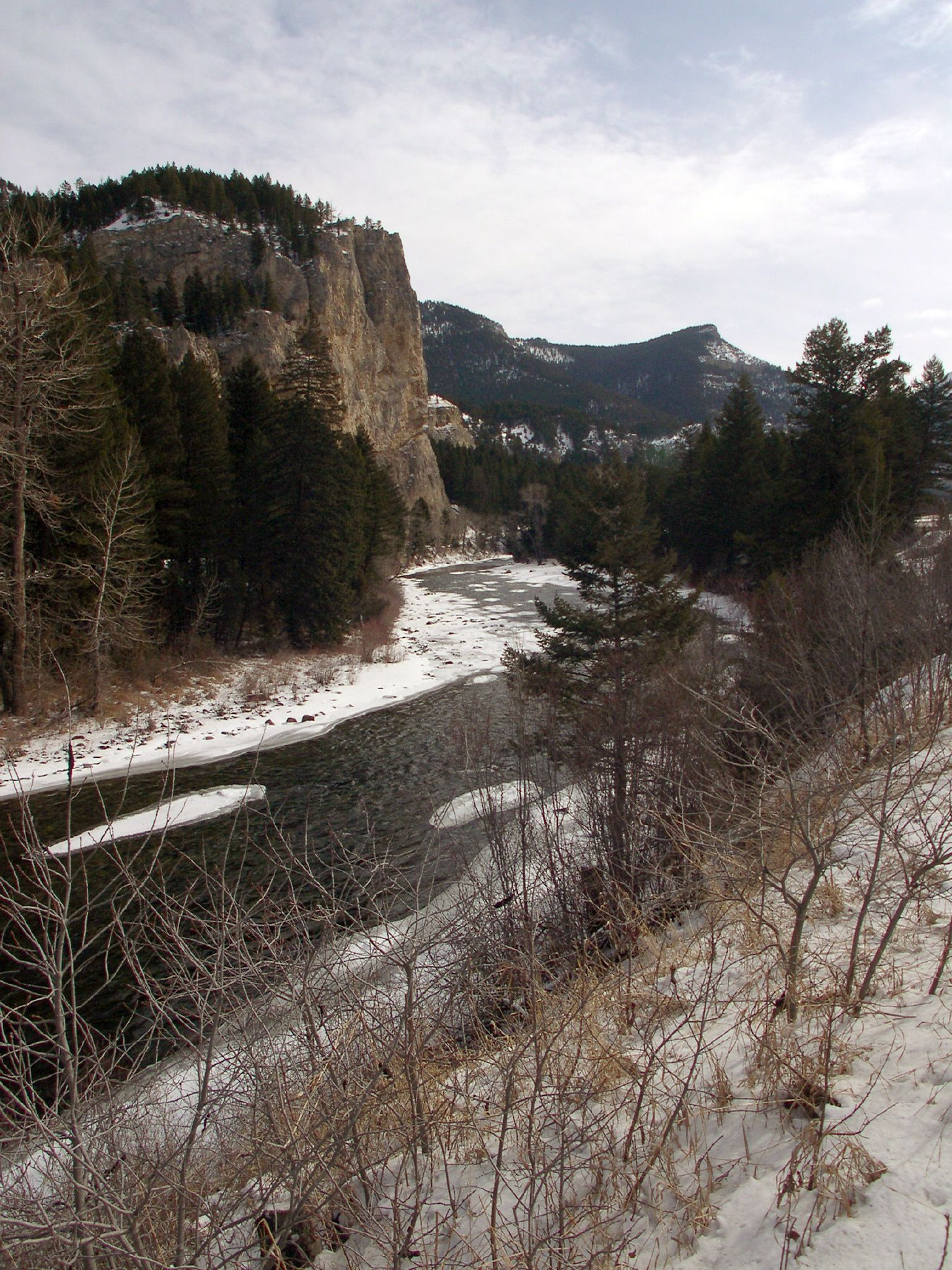 The Gallatin River — seen from US 191 between Bozeman and Big Sky, in Montana.